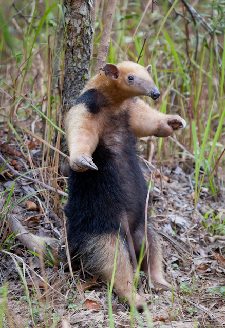 Southern tamandua (Tamandua tetradactyla).